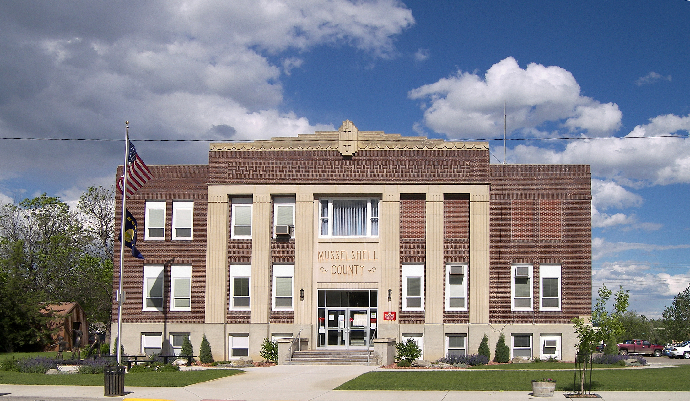 The Musselshell County, Montana Courthouse located in Roundup, Montana, United States.